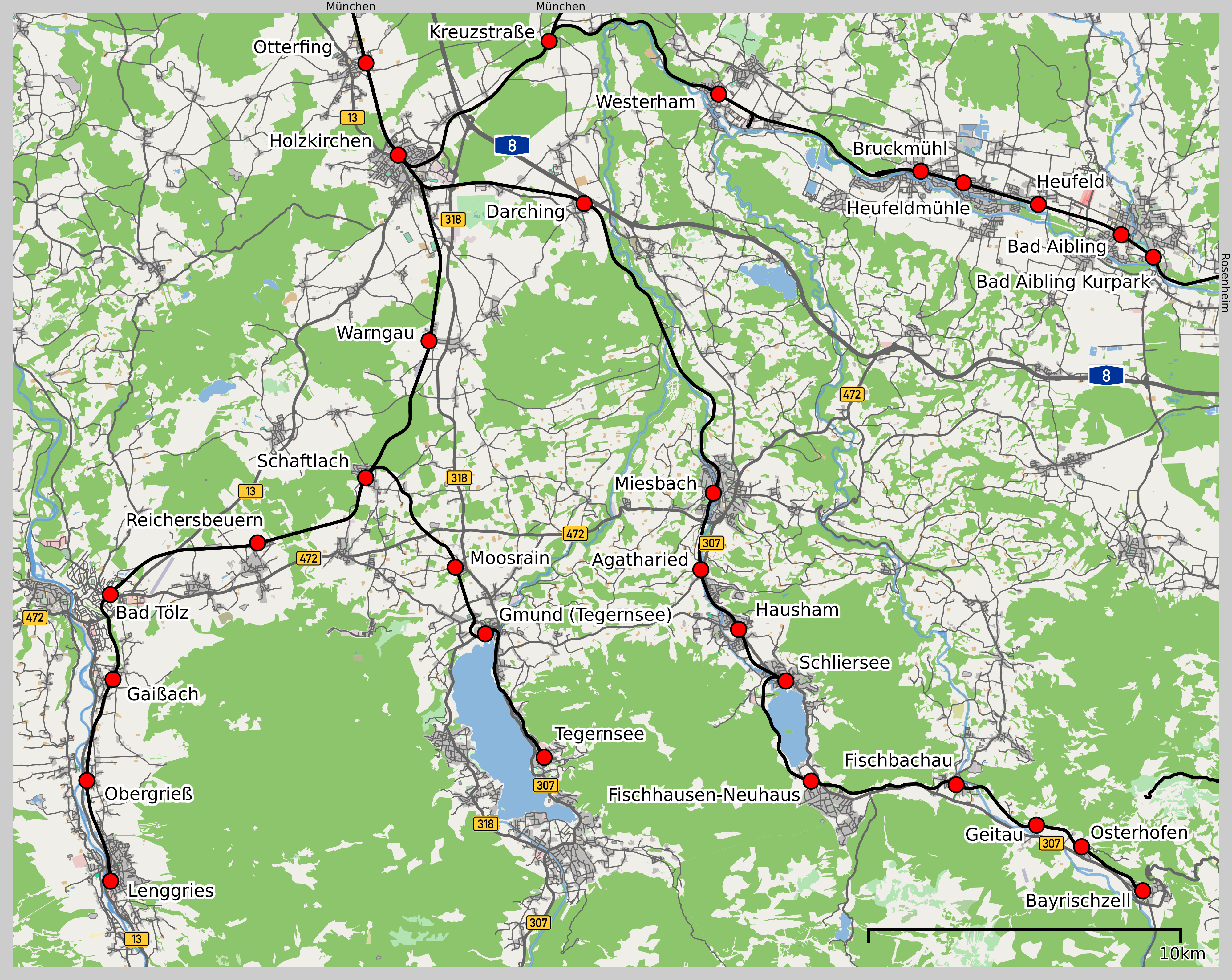 This map the railway-lines south of Holzkirchen was created from OpenStreetMap project data, collected by the community. This map may be incomplete, and may contain errors. Don't rely solely on it for navigation.